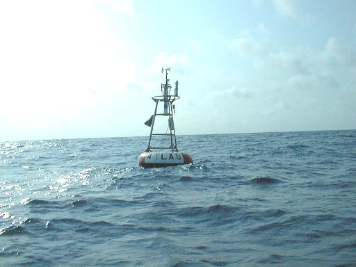 A weather buoy at 0 deg latitude, 0 deg longitude. Maintained by the PIRATA (Prediction and Research Moored Array in the Atlantic) project.